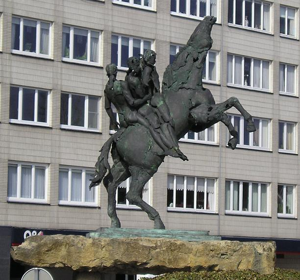 The statue of Ros Beiaard (mythological horse, according to the legend, it could carry four knights) in Dendermonde (Belgium). The statue stands in the middle of roundabout near Brusselsepoort gate.